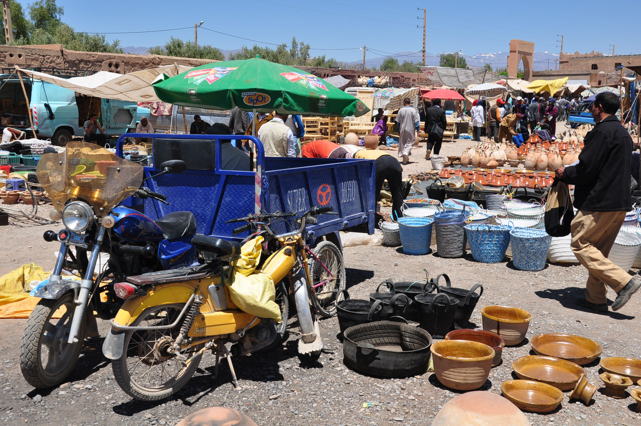 Market scene in Skoura (Morocco, Souss-Massa-Draa region, Ouarzazate Province).